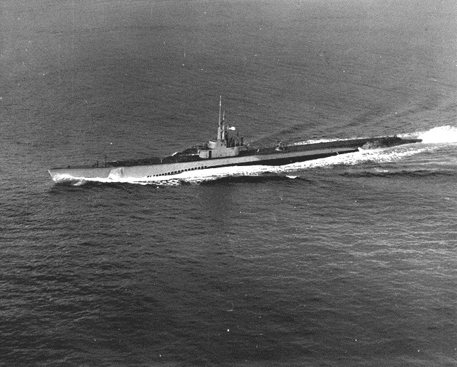 USS_Blower; Blower (SS-325), portside view underway, circa 1944-50, place unknown. US Navy photo.